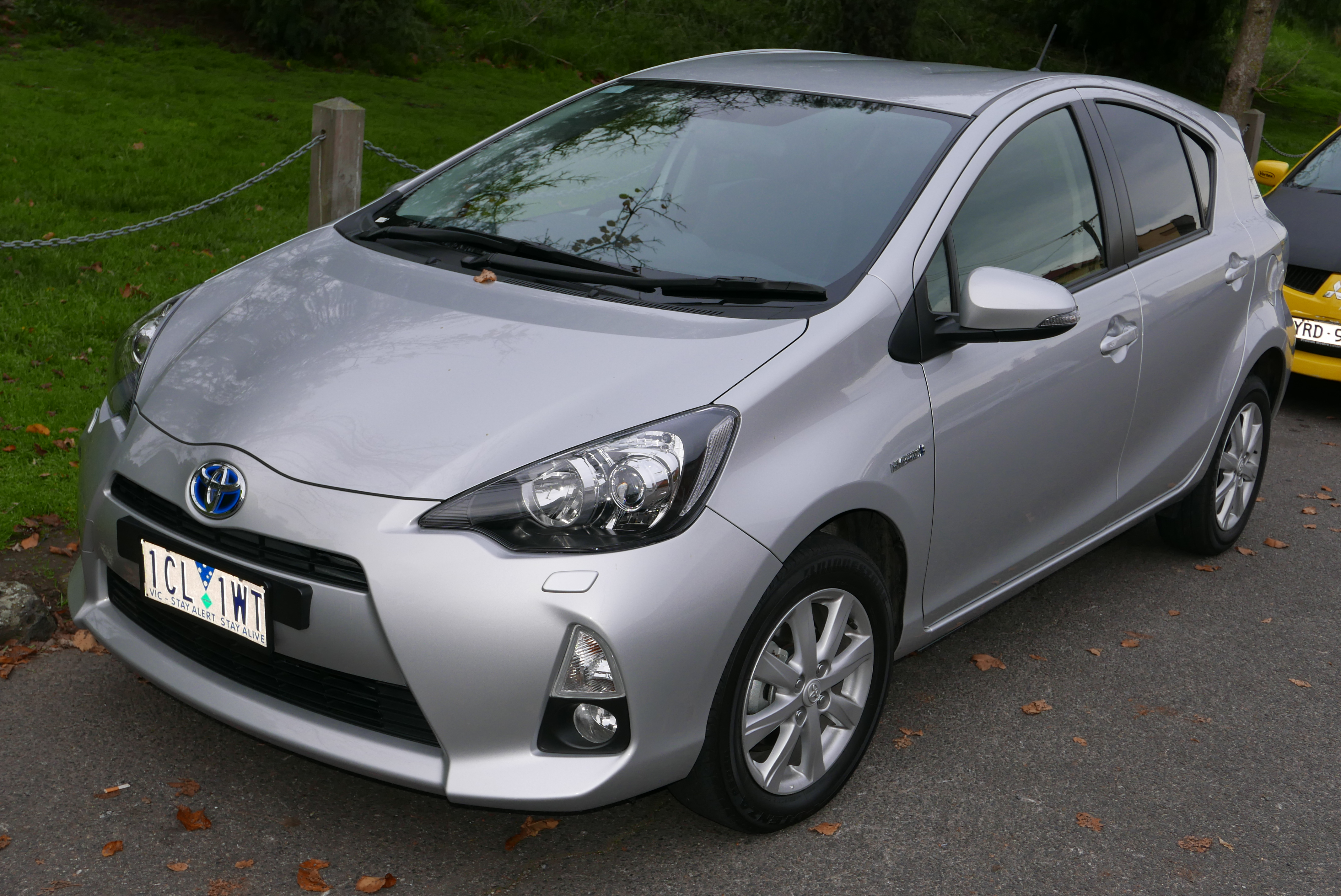 2014 Toyota Prius c (NHP10R) i-Tech hatchback. Photographed in Fitzroy North, Victoria, Australia. Vehicle registration enquiry resultsJurisdictionVictoriaRegistration1CL1WTChassis codeJTDKD3B3501078368Engine code1NZR192942Compliance date2014-08Year of manufacture2014